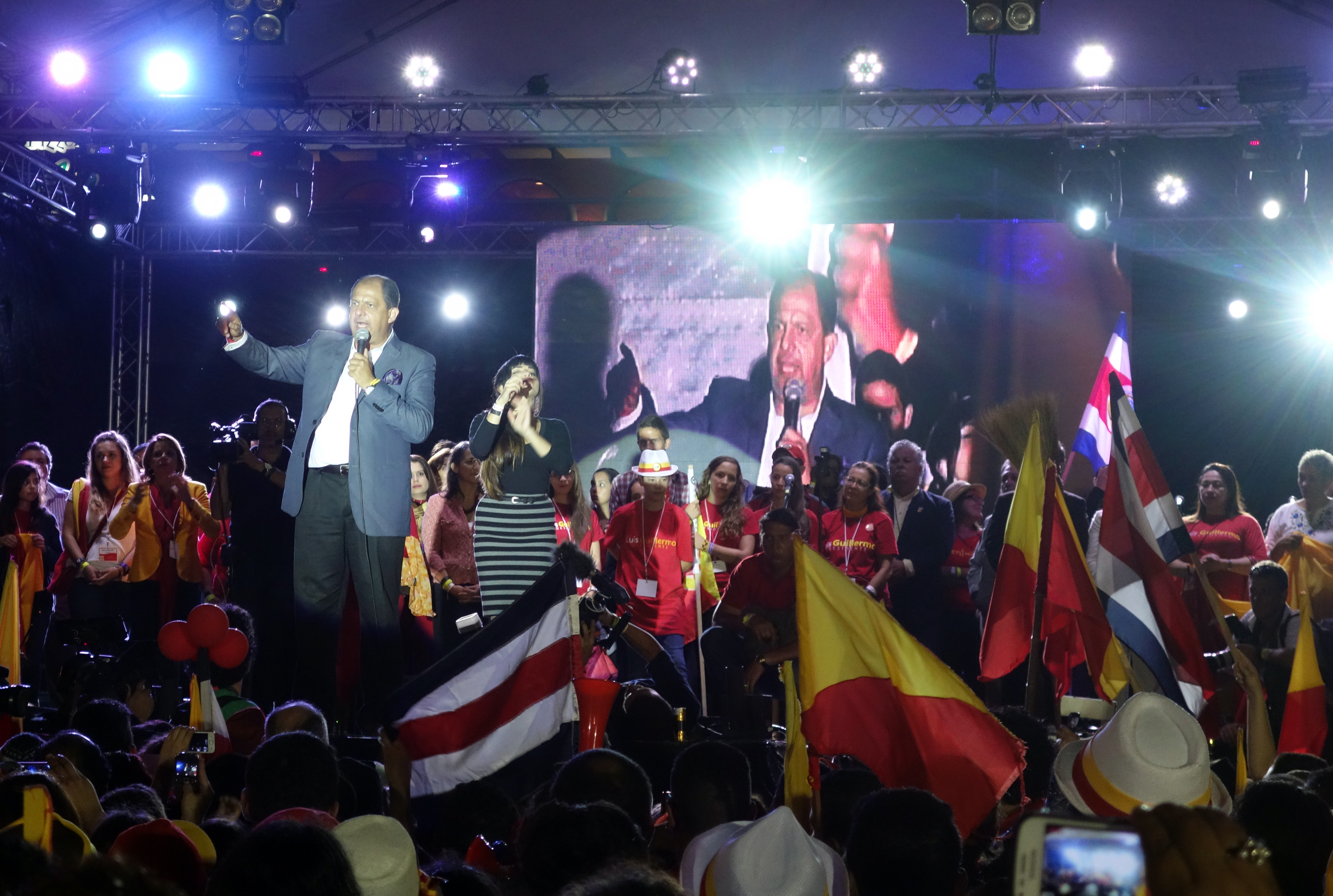 Luis Guillermo Solís giving his first speech as president-elect of Costa Rica at Plaza Roosevelt in San Pedro